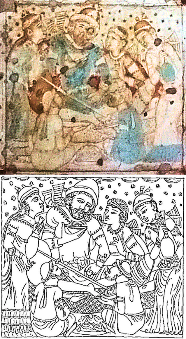 Foreigner on ceiling of Cave 1at Ajanta Caves photograph and drawing. Another image of a foreigner from the same ceiling